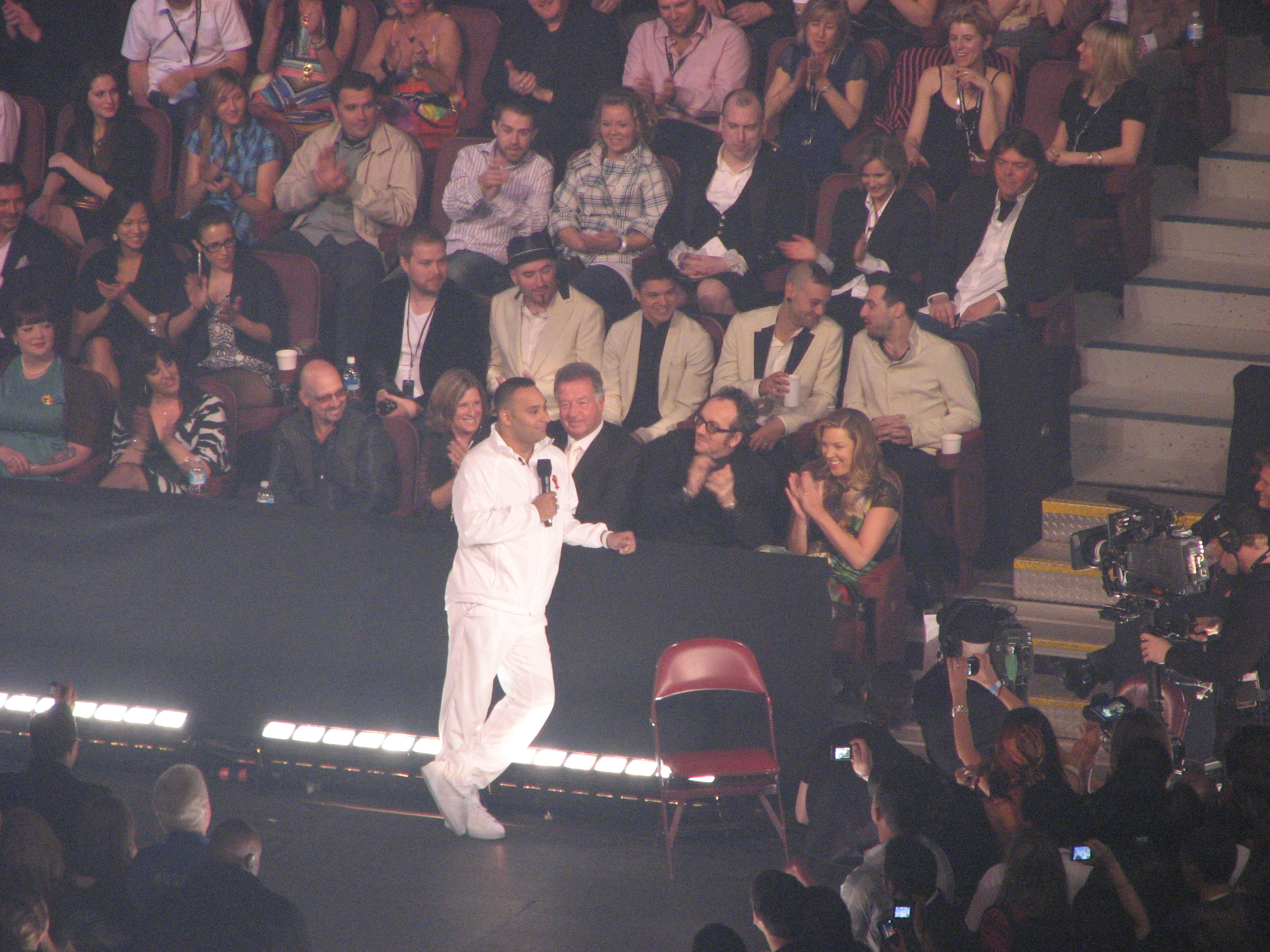 Russell Peters speaks with Elvis Costello and Diana Krall at the 2009 Juno Awards in Vancouver, British Columbia, Canada.